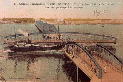 Period post card, illustrating the oppening of the Faidherbe Bridge